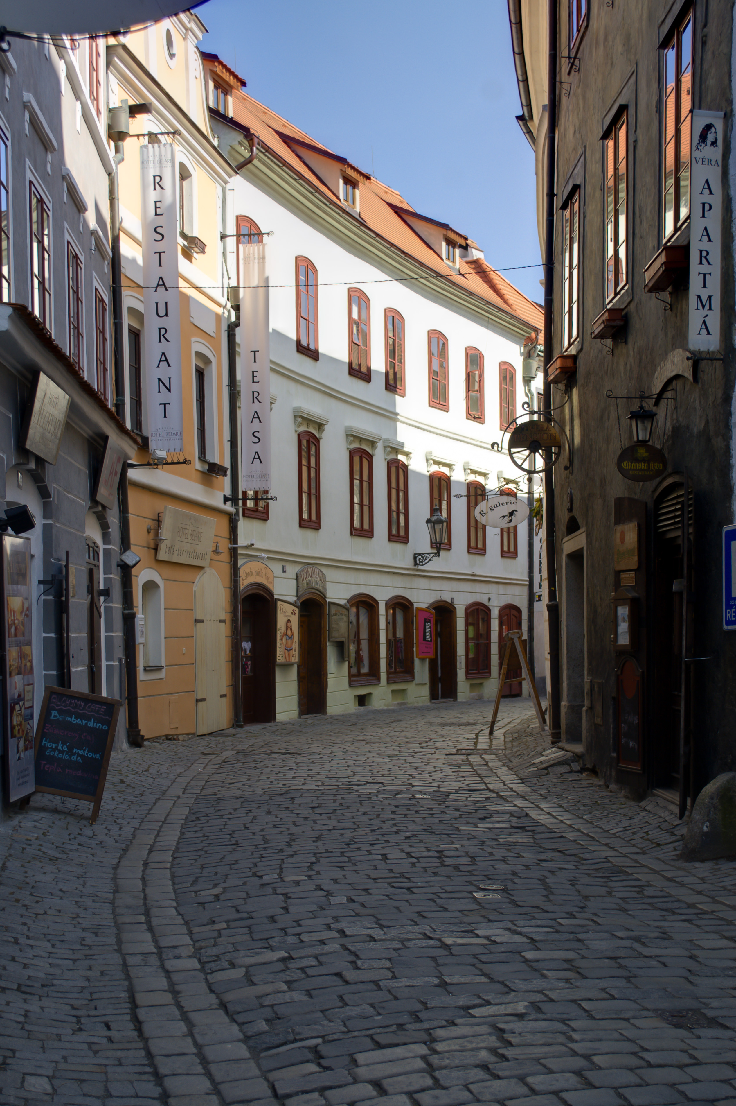 Street in Česky Krumlov